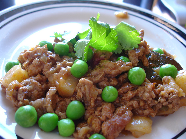 Awadhi kheema